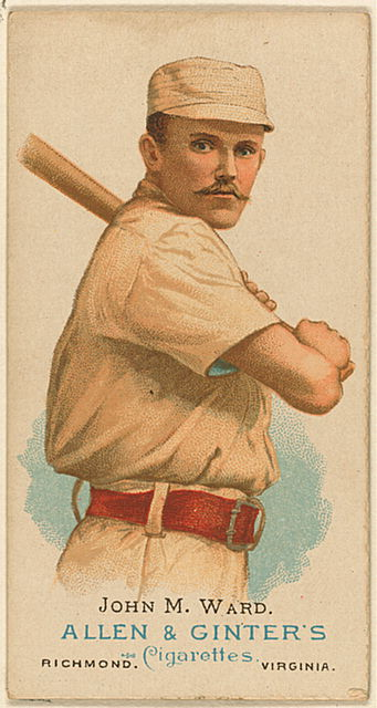 Allen & Ginter's Cigarettes baseball card depicting John Montgomery Ward of the New York Giants.